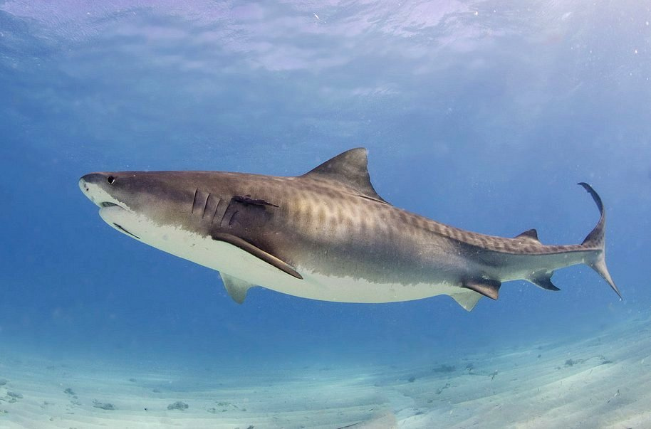 Tiger Shark from Bahamas